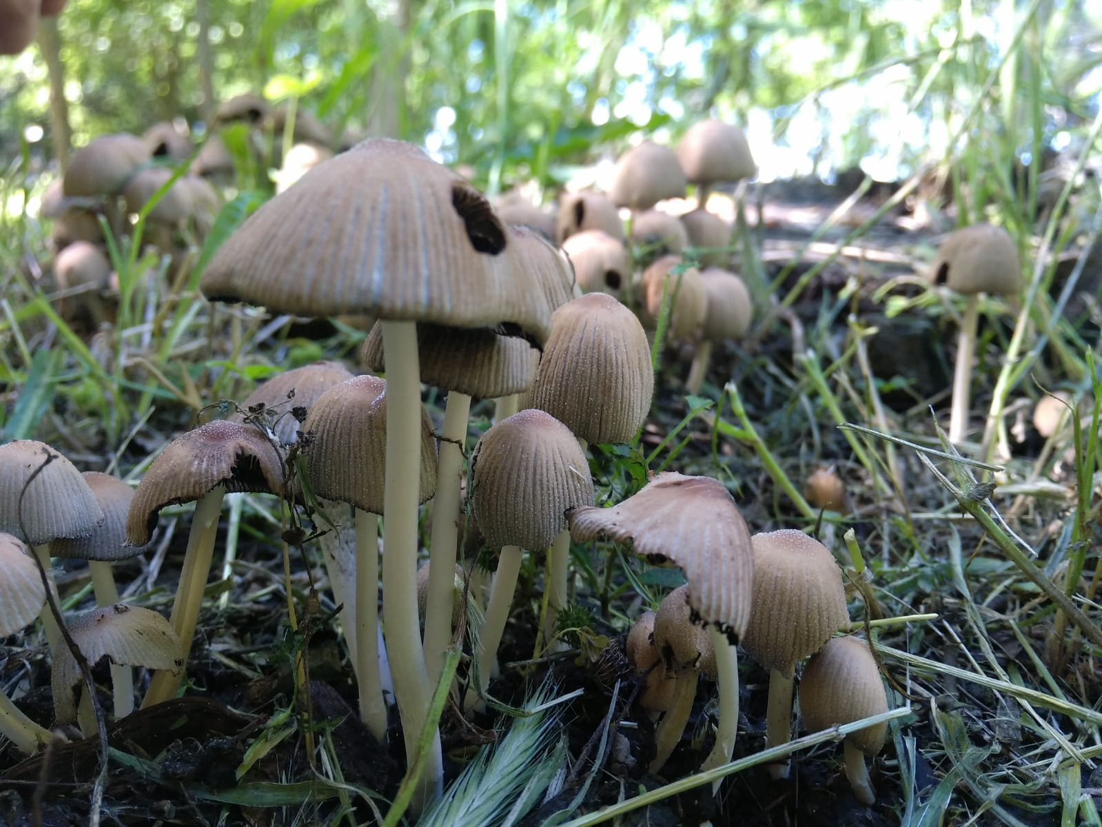 Agaricus is a genus of mushrooms containing both edible and poisonous species, with possibly over 300 members worldwide. The genus includes the common mushroom and the field mushroom, the dominant cultivated mushrooms of the West.